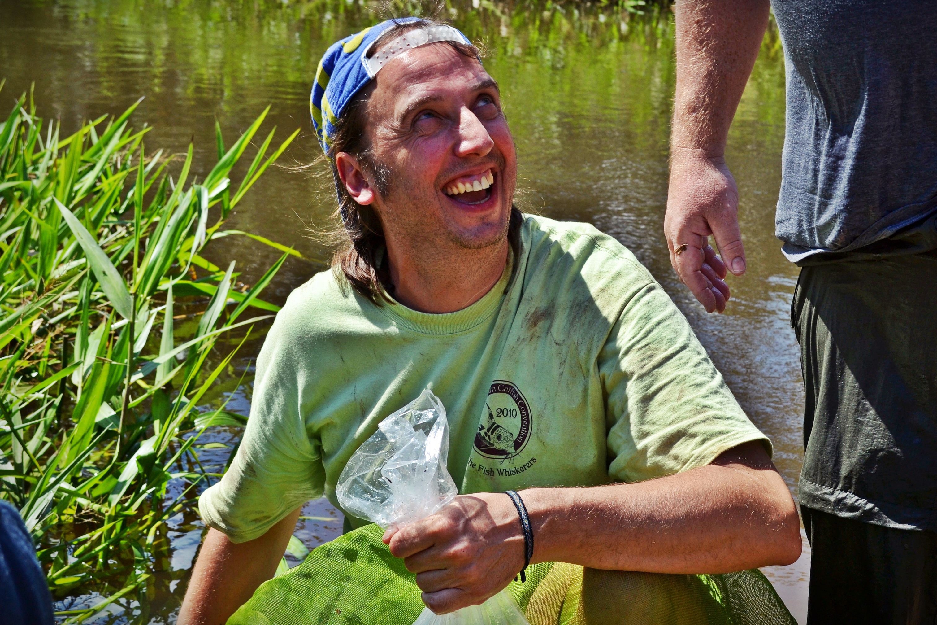 collecting fish in Perú